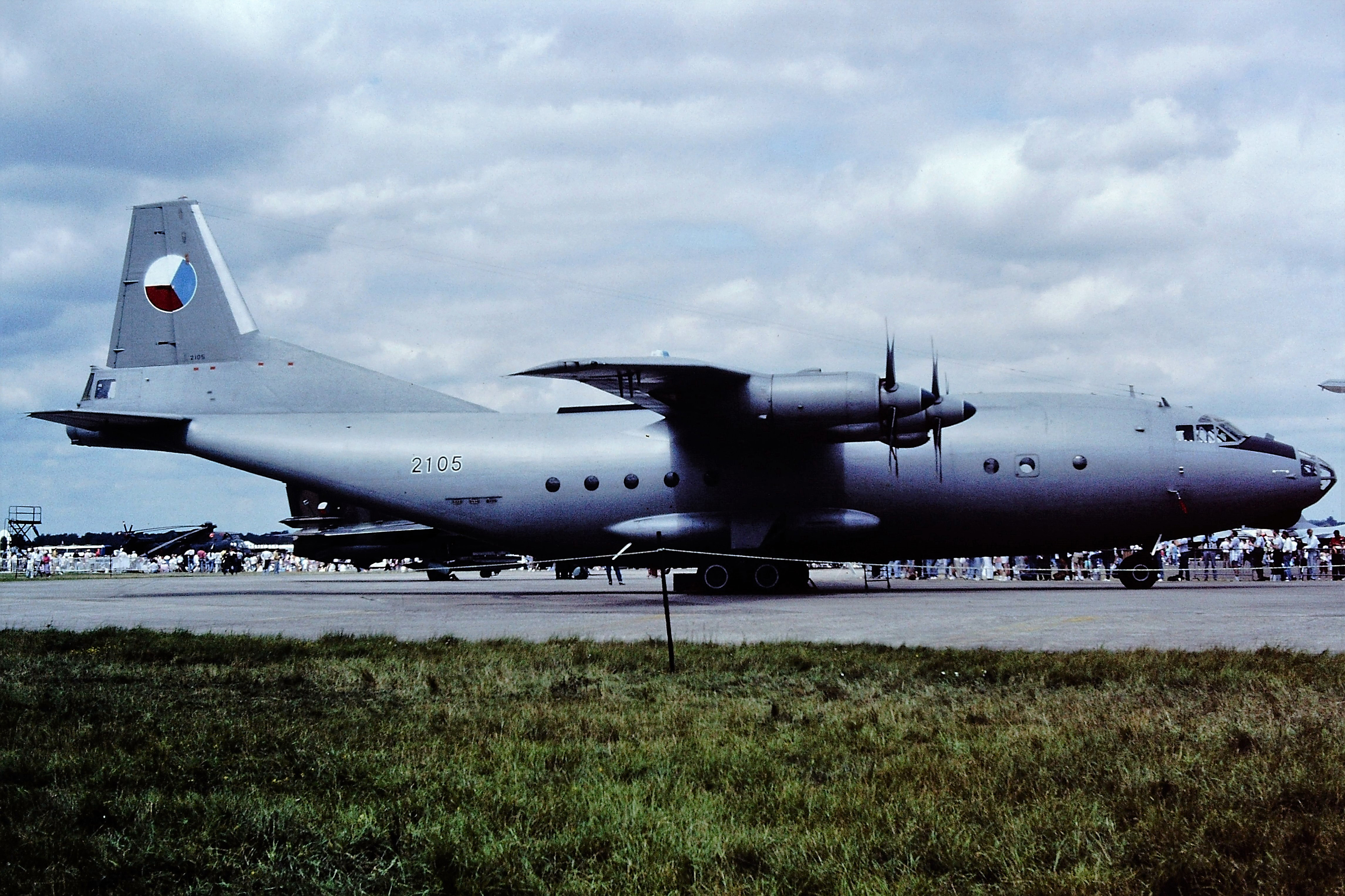 2105 An12BP Czech Air Force Fairford 22-07-1991